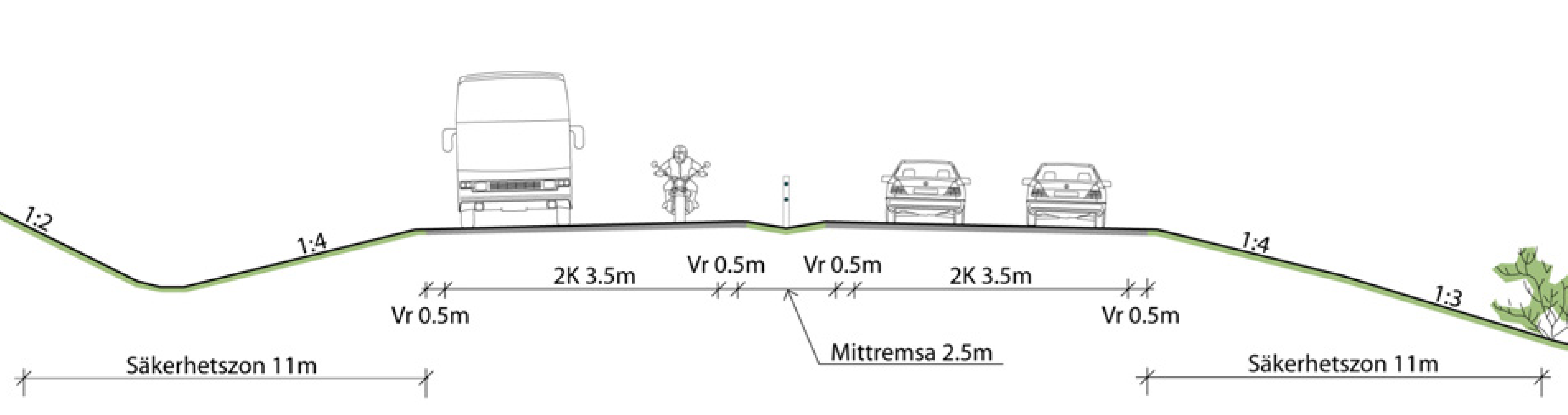 Type-section sketch of Swedish 2+2 highway